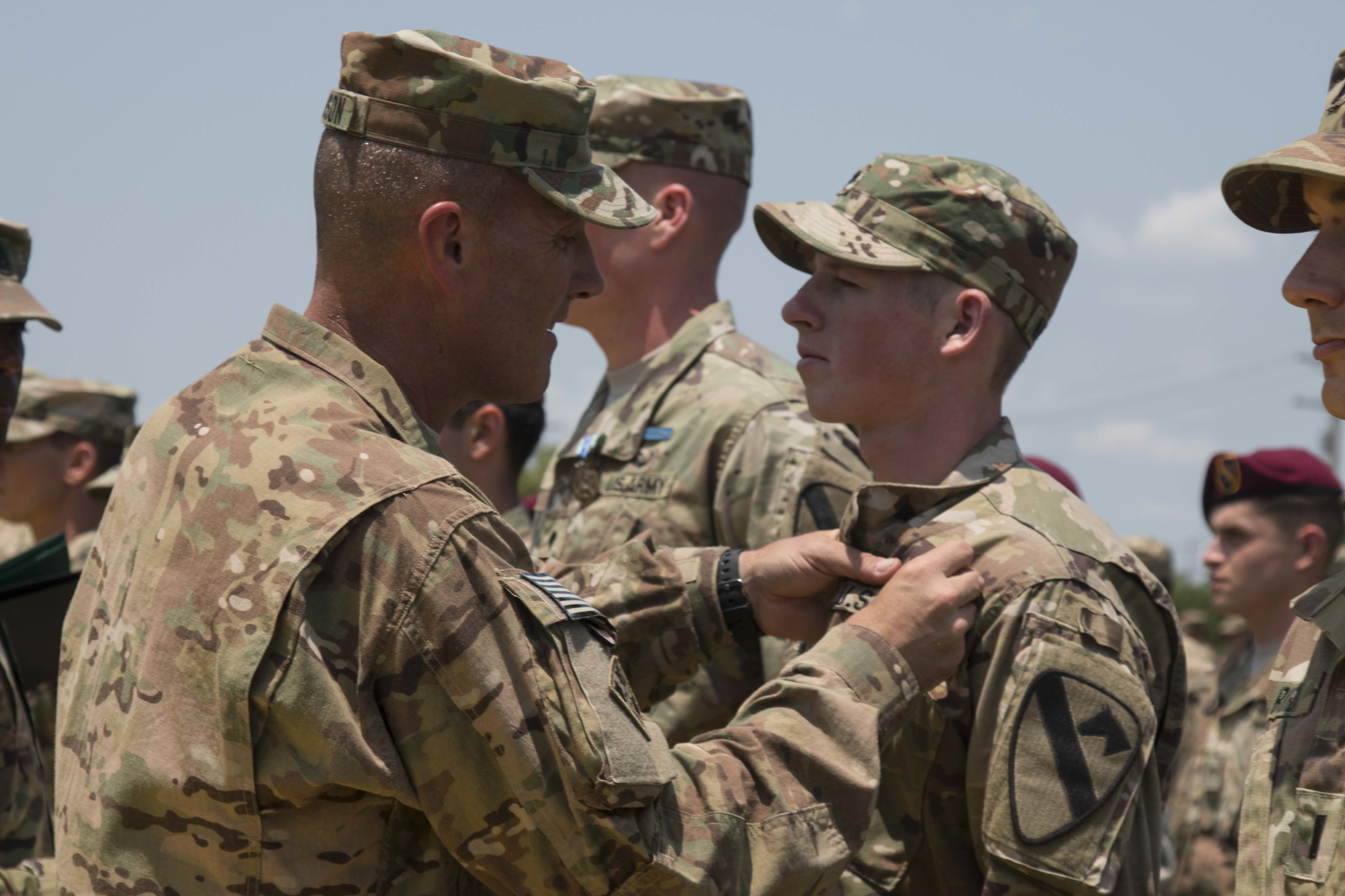 First Team Commanding General Maj. Gen. John Thomson pins the Expert Infantryman badge onto the chest of Spc. Jacob Nausadis, an infantryman assigned to the 1st Battalion, 12th Cavalry Regiment, 3rd Armored Brigade Combat Team, 1st Cavalry Division. Nausadis was motivated to earn the badge by his father who is also an expert infantryman. Out of 827 candidates, 71 Soldiers were pinned with shiny new Expert Infantryman Badges in a ceremony on Cooper Field at Fort Hood, Texas, May 13. Unit: 3rd Armored Brigade Combat Team, 1st Cavalry Division